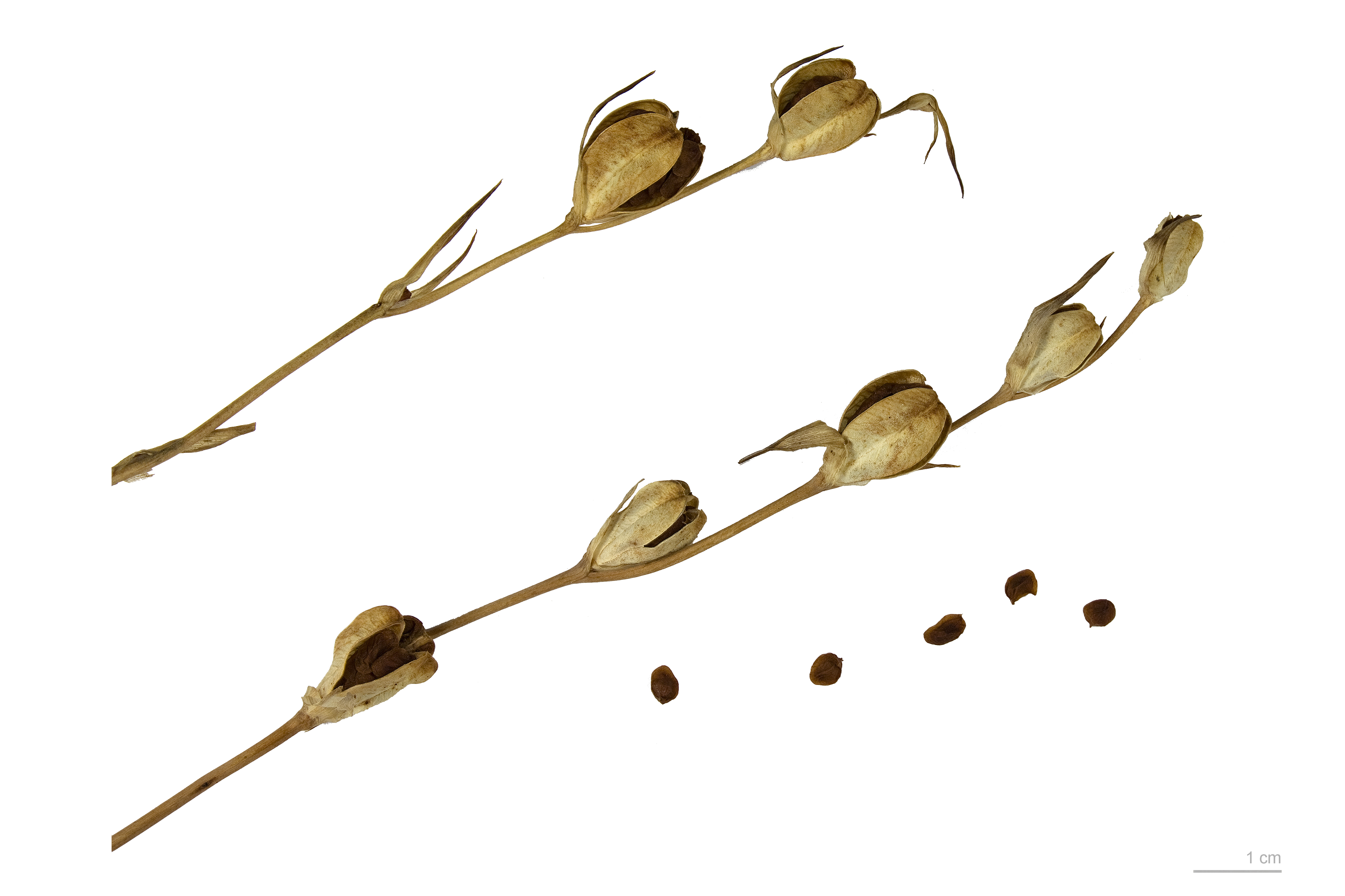 Gladiolus illyricus , fruits and seeds